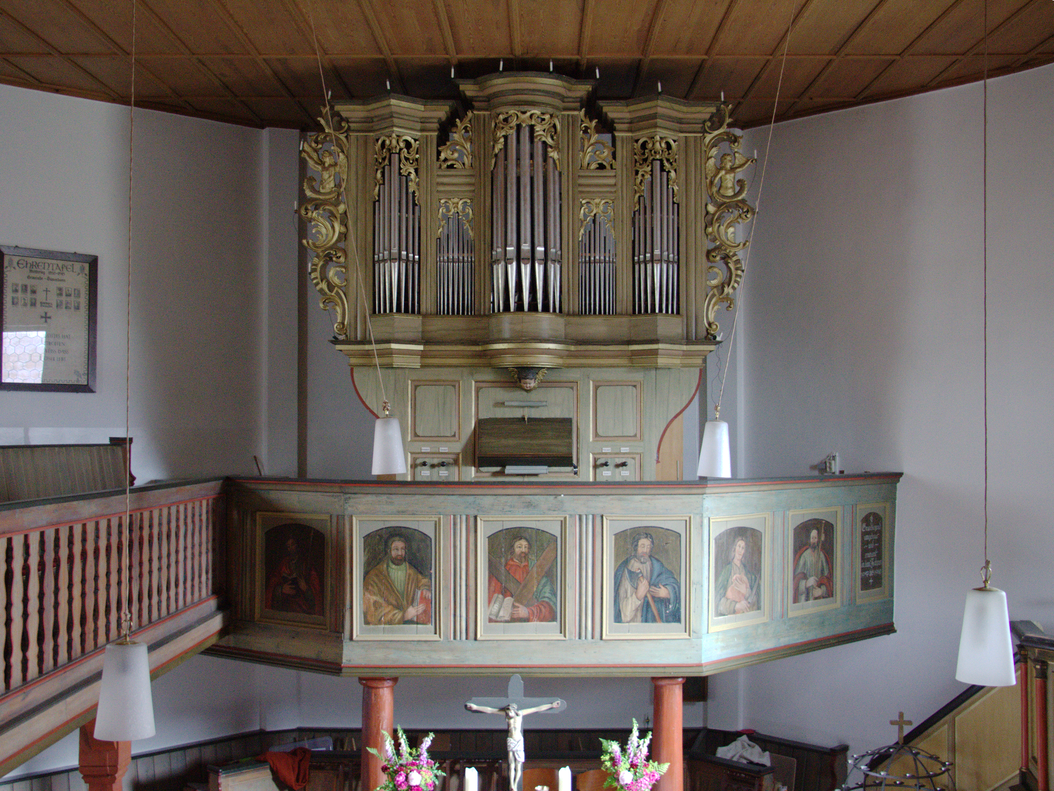 Protestant church (Organ) in Busenborn Schotten, Hesse, Germany